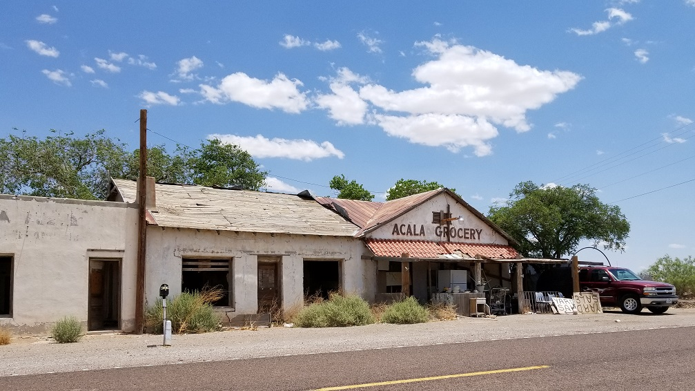 Downtown Acala Texas.